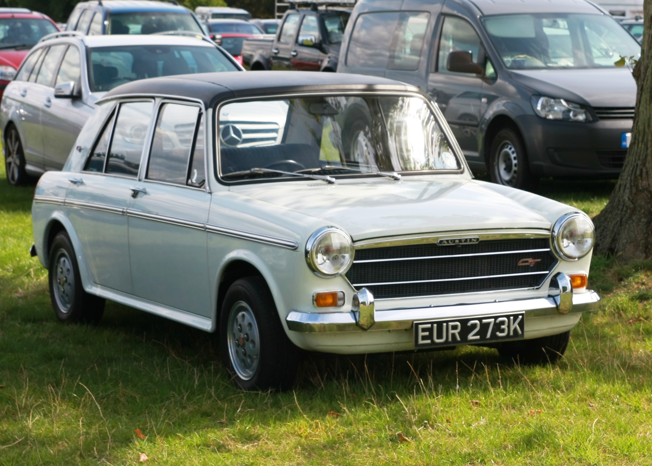 Austin 1300GT (1972) at Knebworth (2014) The normal engine capacity for this model is 1275cc. I have no explanation for why the UK tax office is showing a non-standard engine size. As far as I know the BMC A-series engine never was (and probably never could safely be) bored out to 1380cc for production use. And there's not too much space under the bonnet/hood for an alternative power unit. So ... I don't know. Typo?